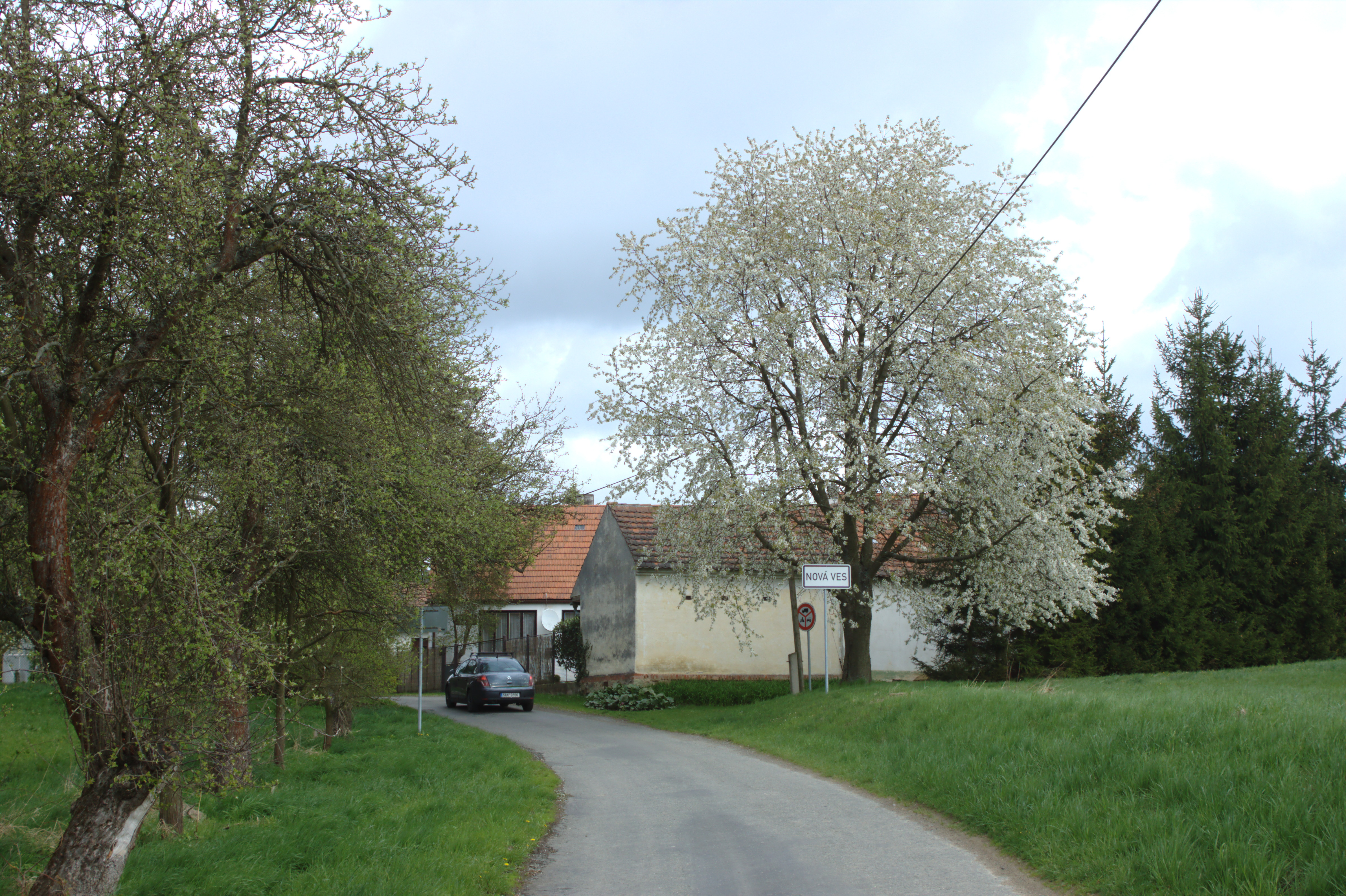 The village of Nová Ves near Kbel, Plzeň Region, CZ